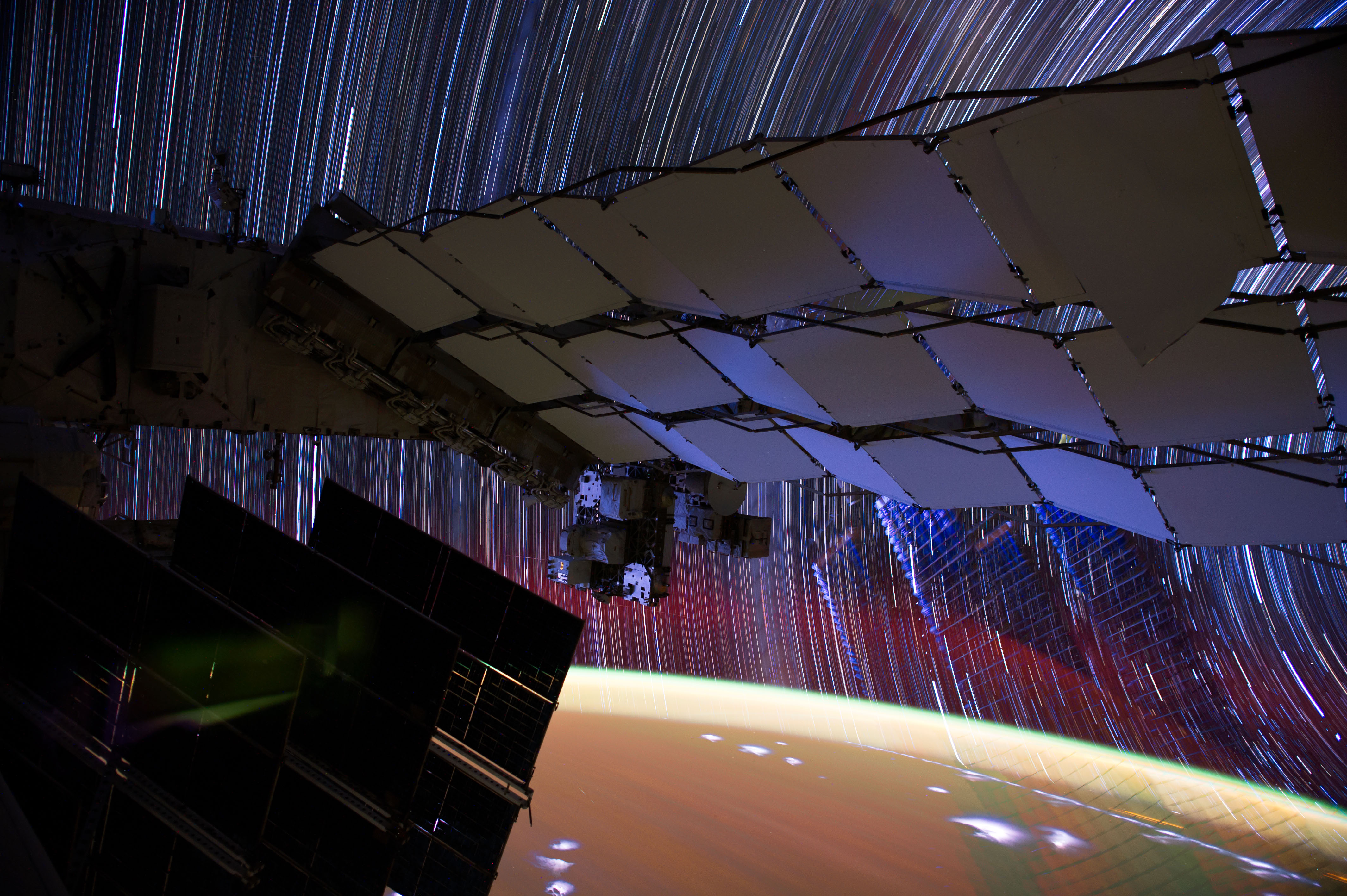 Star trail composite image created by International Space Station Expedition 30 crew member Don Pettit using images ISS030E271417 through ISS030E271437. Expedition 30 and Expedition 31 Flight Engineer Don Pettit provided information about photographic techniques used to achieve the images: "My star trail images are made by taking a time exposure of about 10 to 15 minutes. However, with modern digital cameras, 30 seconds is about the longest exposure possible, due to electronic detector noise effectively snowing out the image. To achieve the longer exposures I do what many amateur astronomers do. I take multiple 30-second exposures, then 'stack' them using imaging software, thus producing the longer exposure."